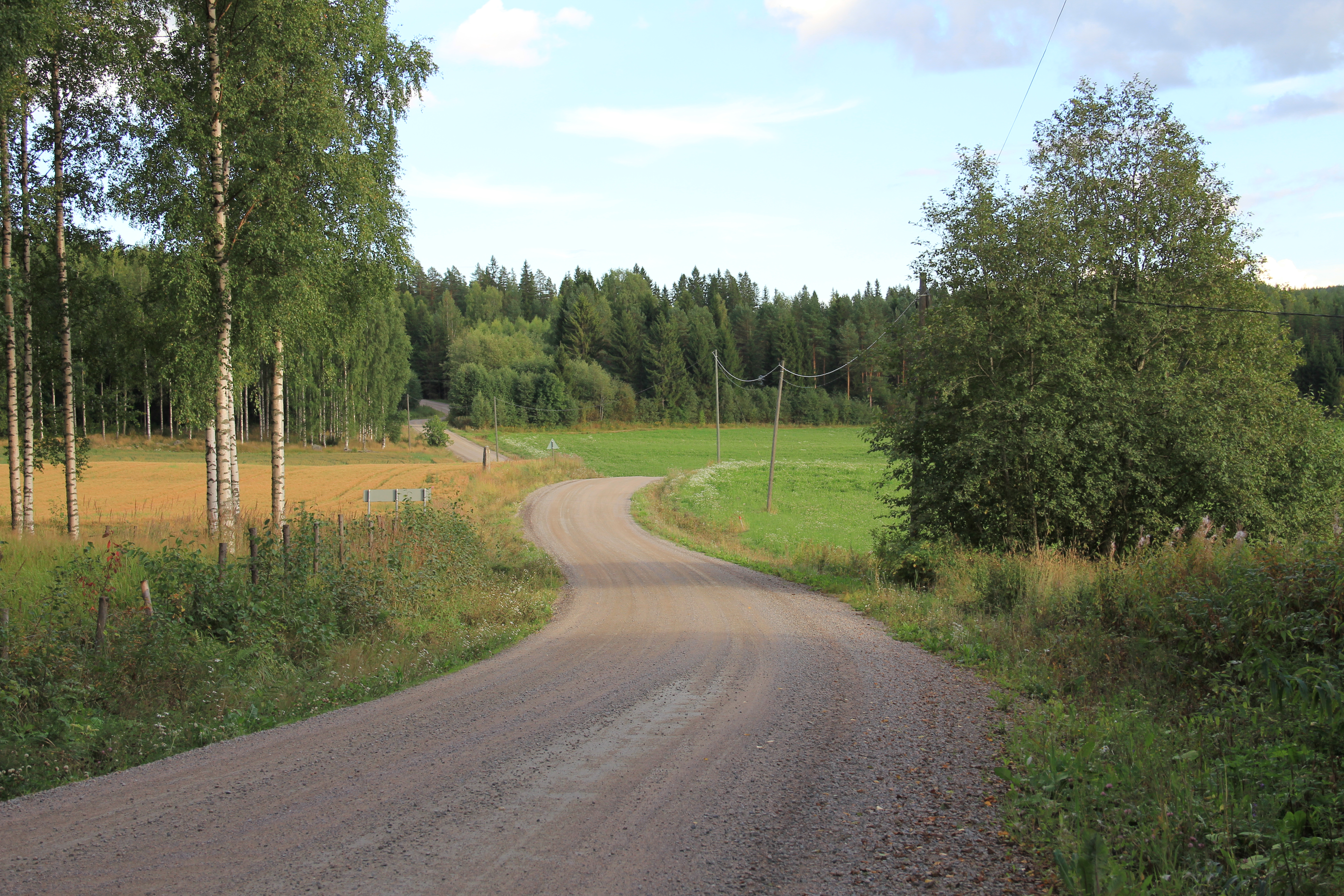 Koivisto local road, Äänekoski, Finland. – Museum road.